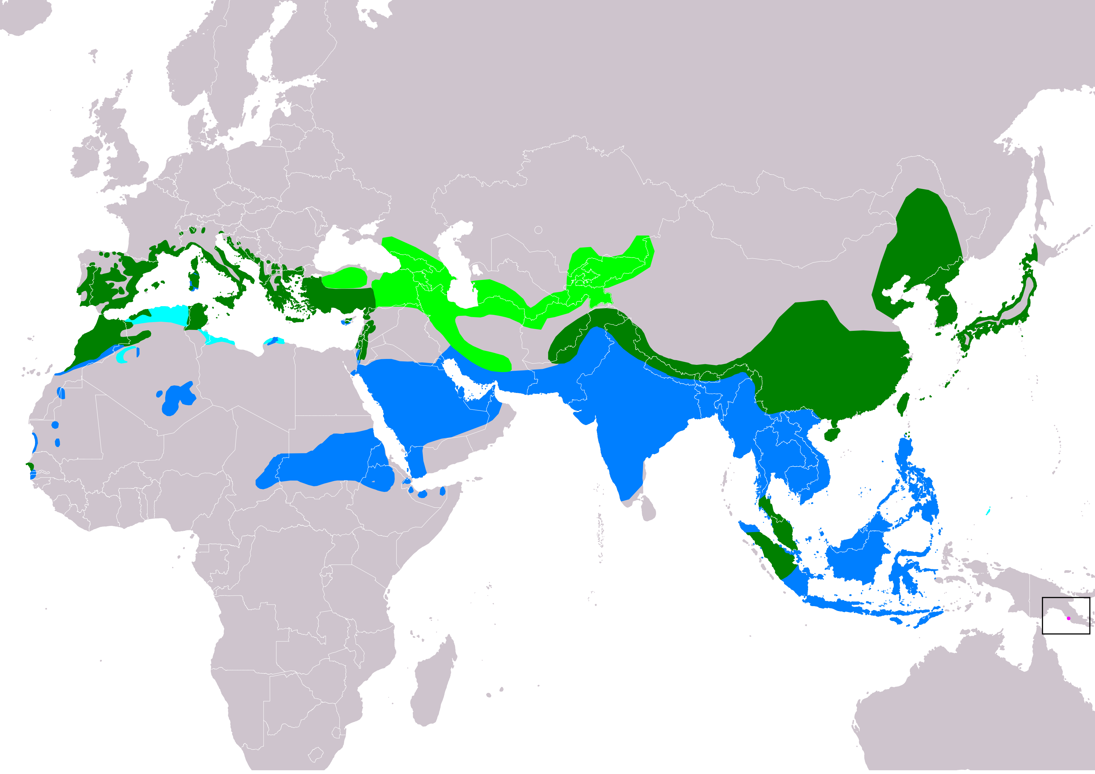 Distribution map of Blue Rock-thrush (Monticola solitarius) according to IUCN 2019-1; key: Legend: Extant, breeding (#00FF00), Extant, resident (#008000), Extant, passage (#00FFFF), Extant, non-breeding (#007FFF), Extant & Vagrant (seasonality uncertain) (#FF00FF)